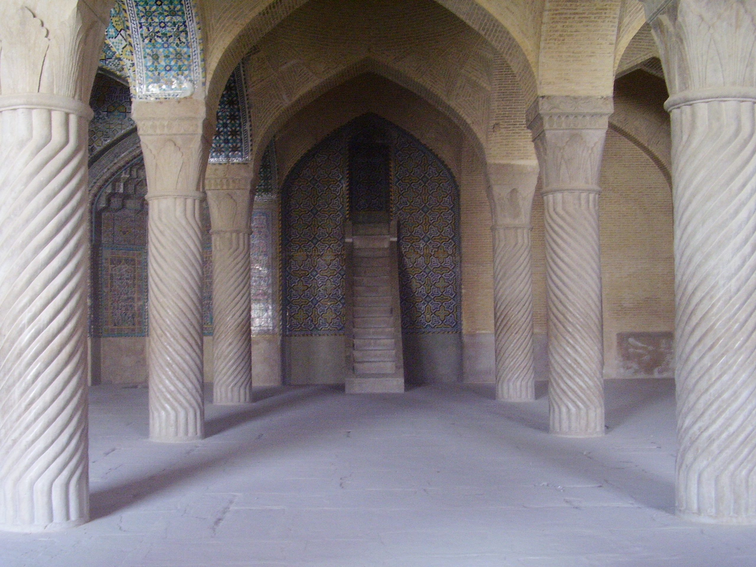 The Masjid-i-Vakil in Shiraz. This is the pulpit where the Bab addressed the populace of Shiraz in September 1846 and proclaimed “O People, know this well and be informed. I say unto you what My Grandfather, the Messenger of God, spoke twelve hundred and sixty years ago and that I do not speak what He did not. ‘What Muhammad made lawful remains lawful unto the Day of Resurrection and what He forbade remains forbidden unto the Day of Resurrection.’ In accordance with this Hadith-i-Marvi from the Immaculate One, ‘Verily, the Qa’im will usher forth the Day of Resurrection.’”